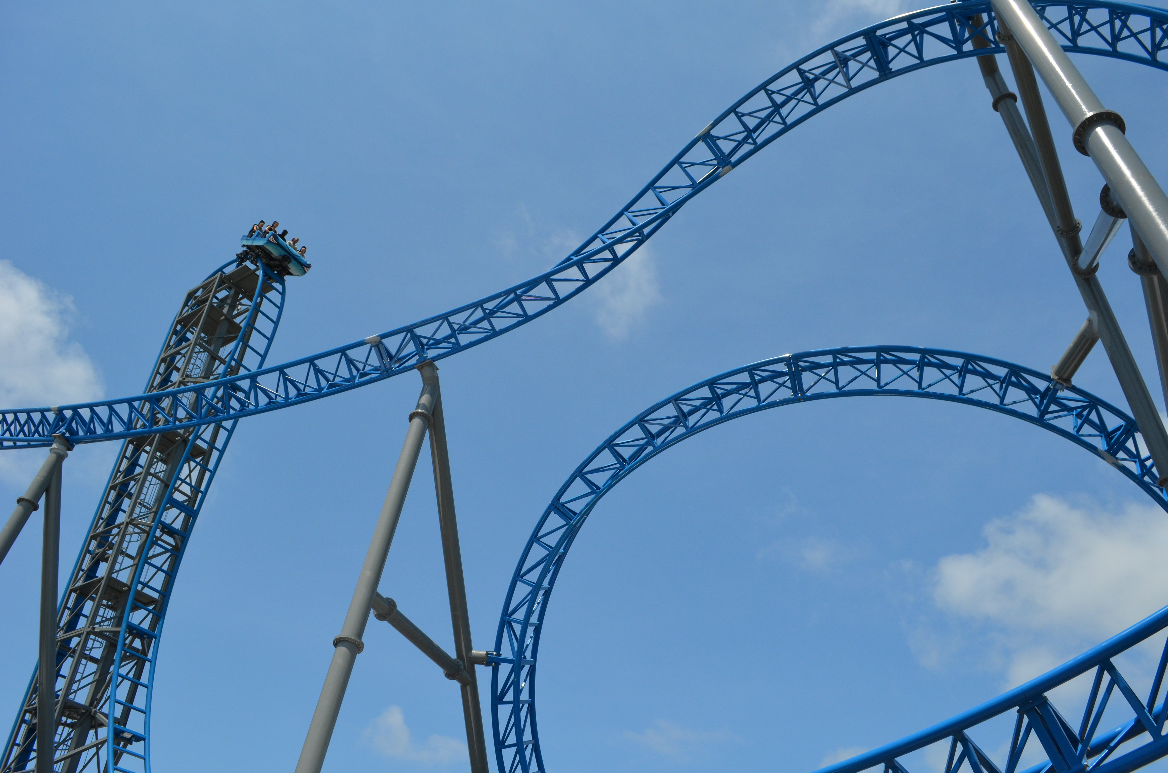 The Iron Shark Euro-Fighter at Galveston Island Historic Pleasure Pier in Galveston, Texas. This ride was manufactured by Gerstlauer.